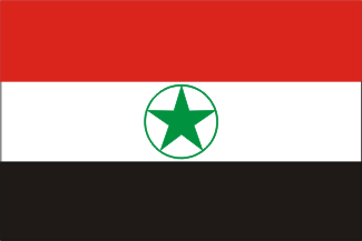 Flag of ALO